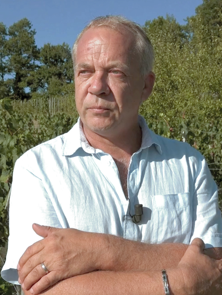 Stéphane Derenoncourt (2016)